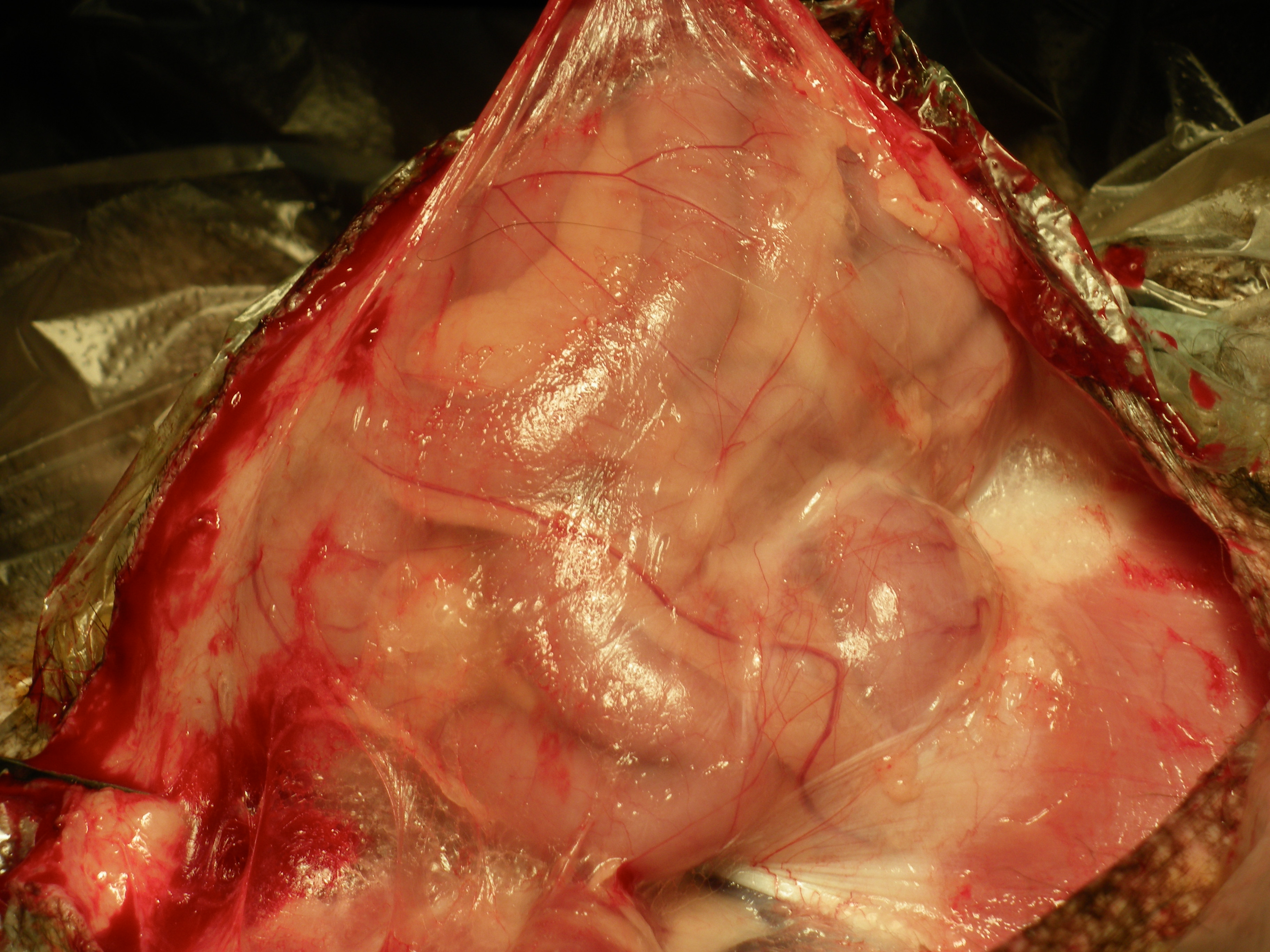 Inguinal hernia in a dog with complete prolaps of the jejunum.